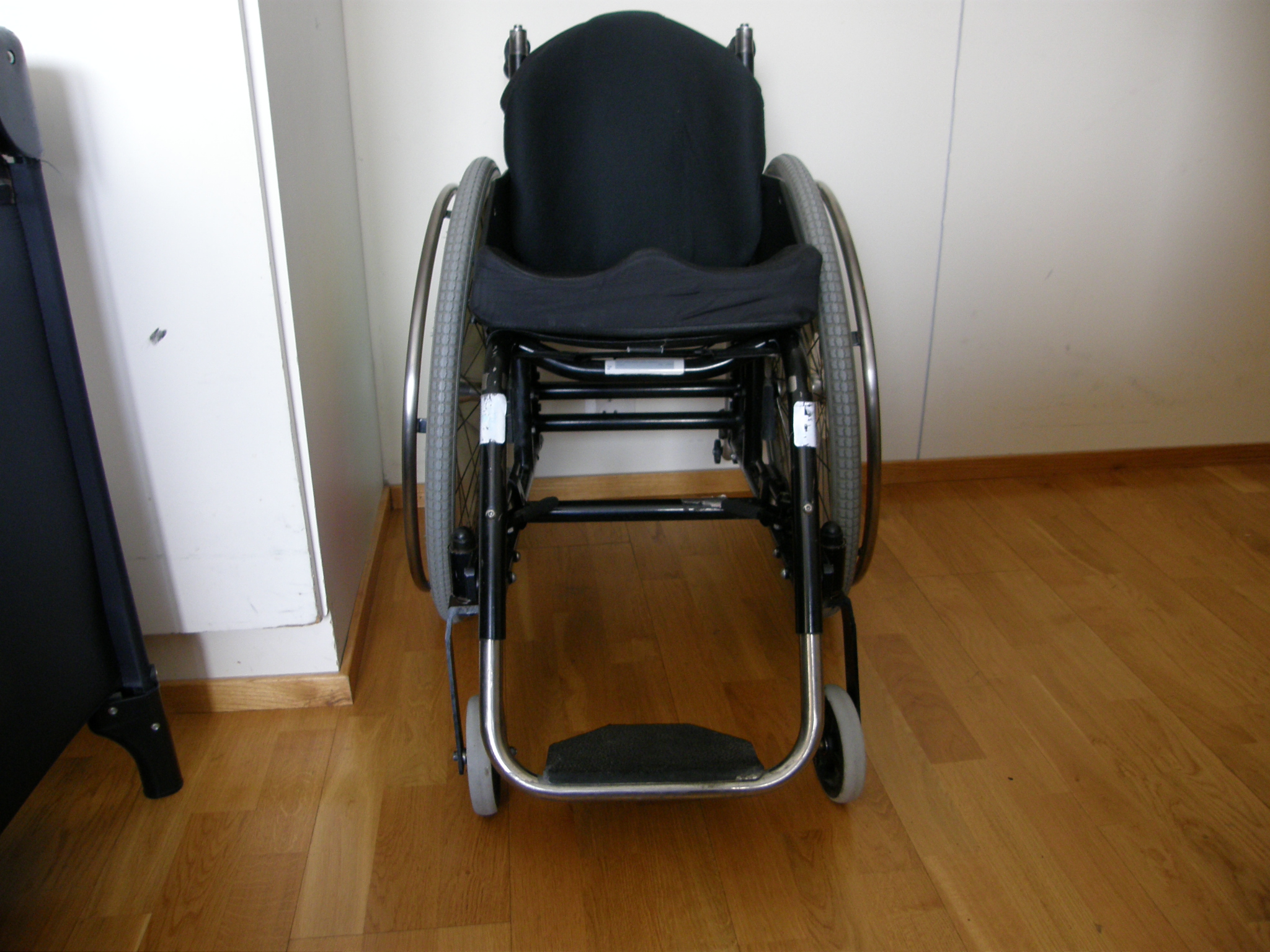 Wheelchair (front2)